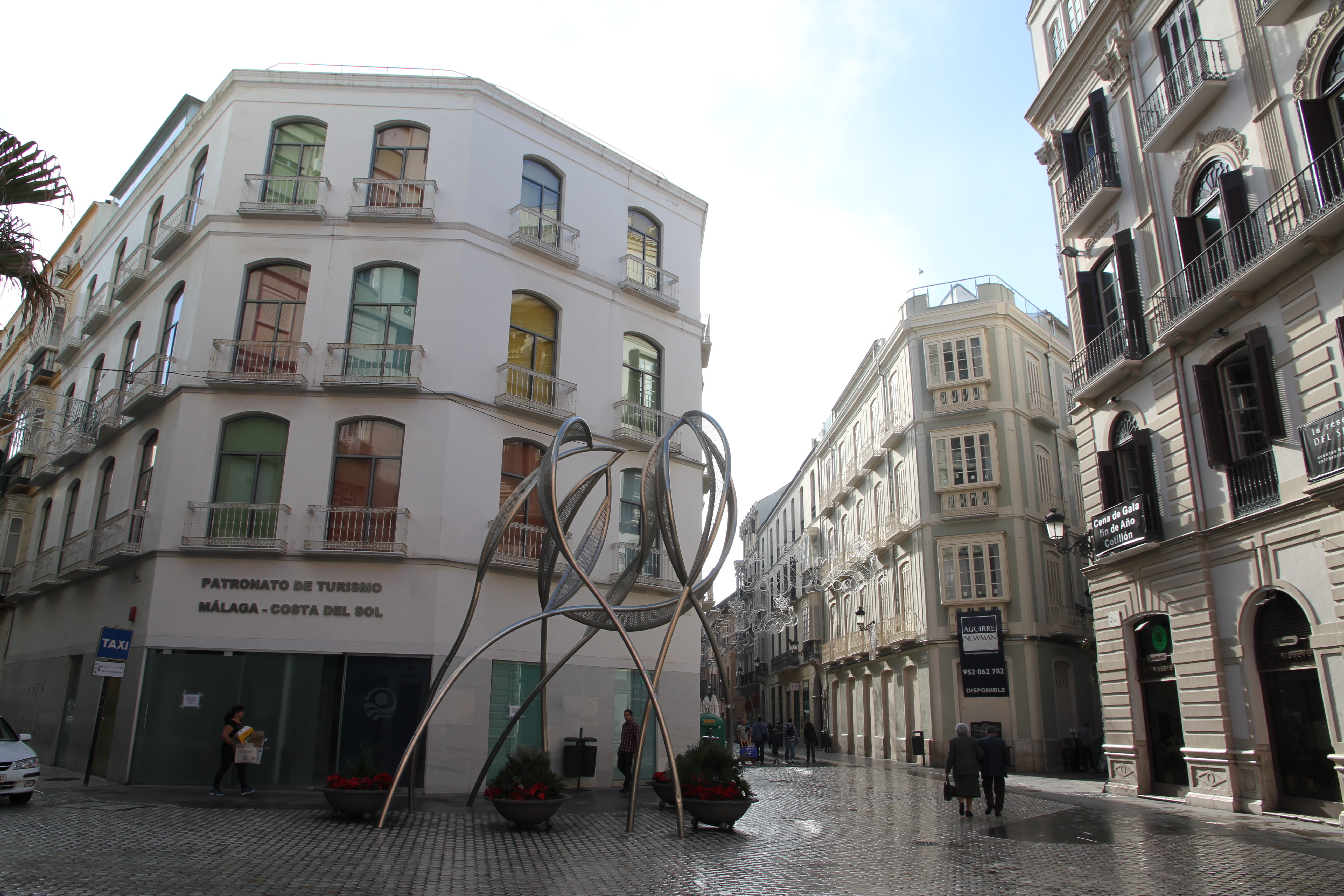 Del Siglo Square, Málaga, Spain.